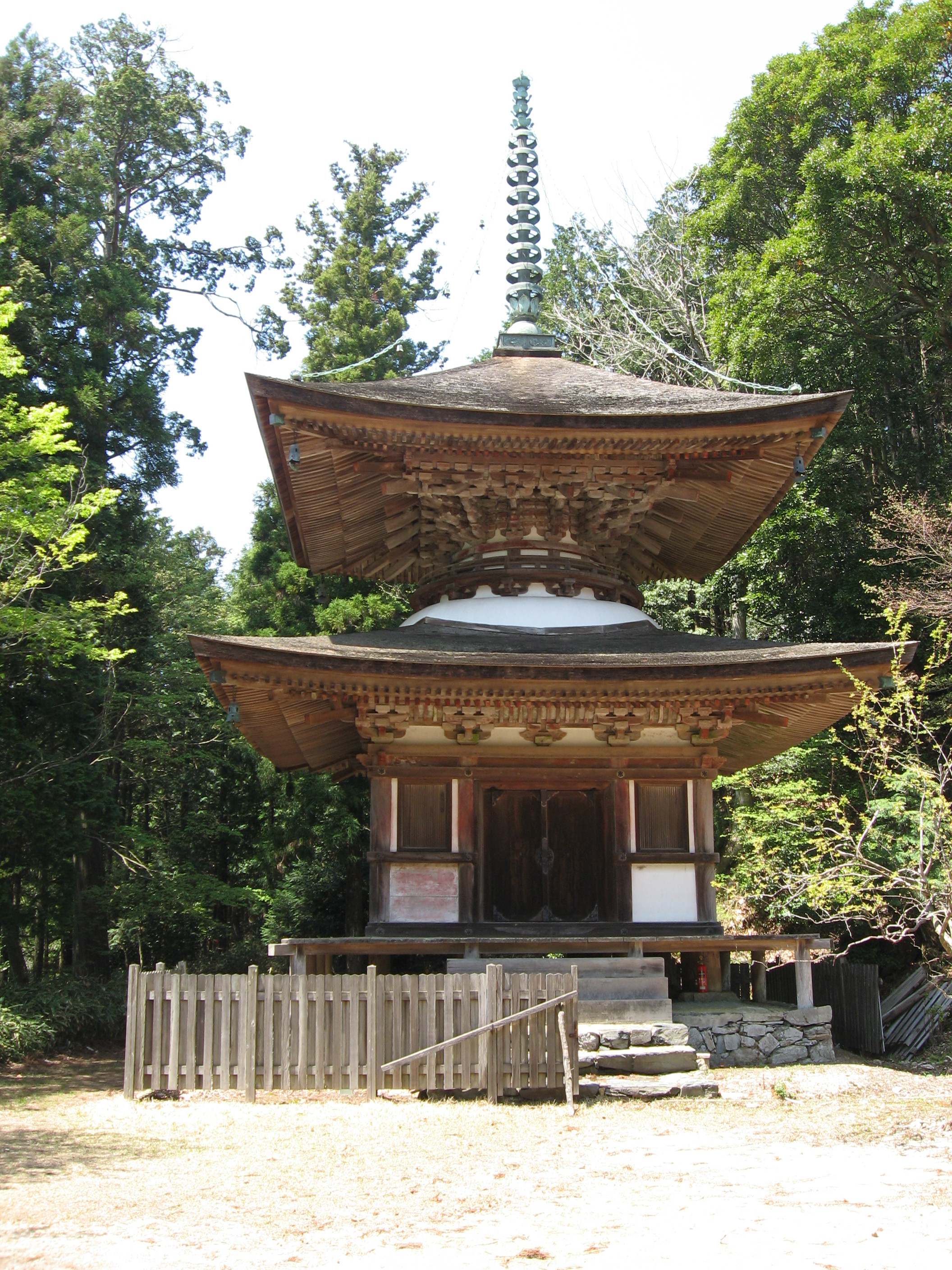 Tahoto (Many-jeweled Pagoda) of Kontaiji